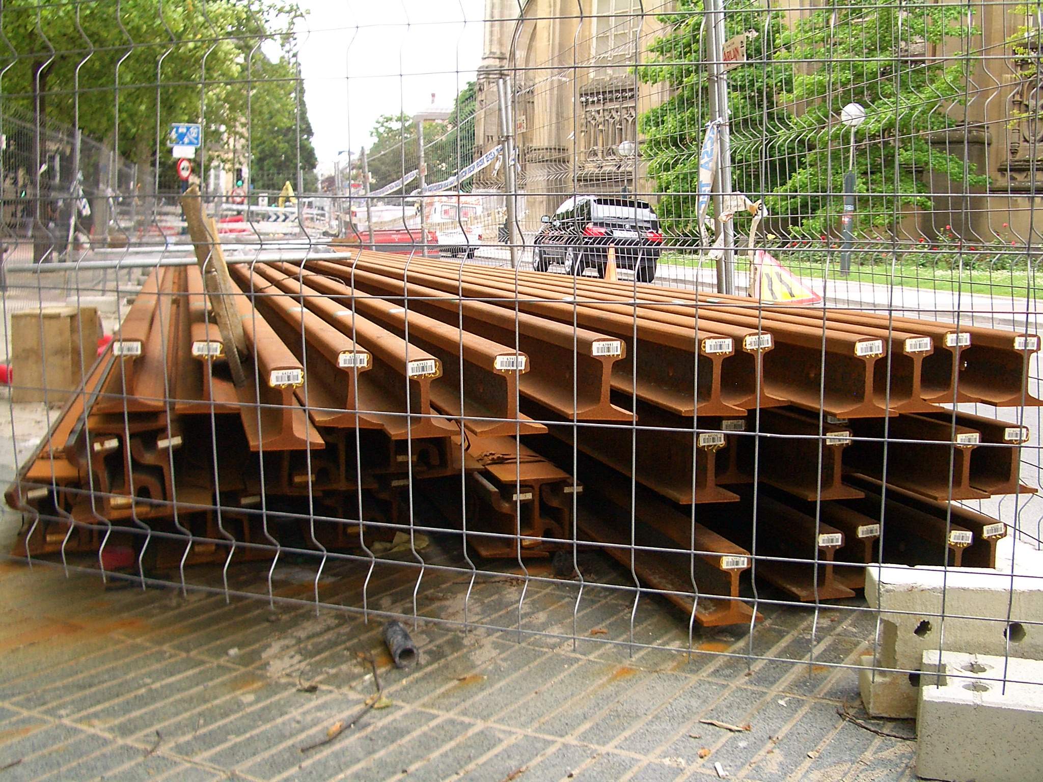 Rails, each one bar-coded, stacked for streetcar line construction in Vitoria-Gasteiz